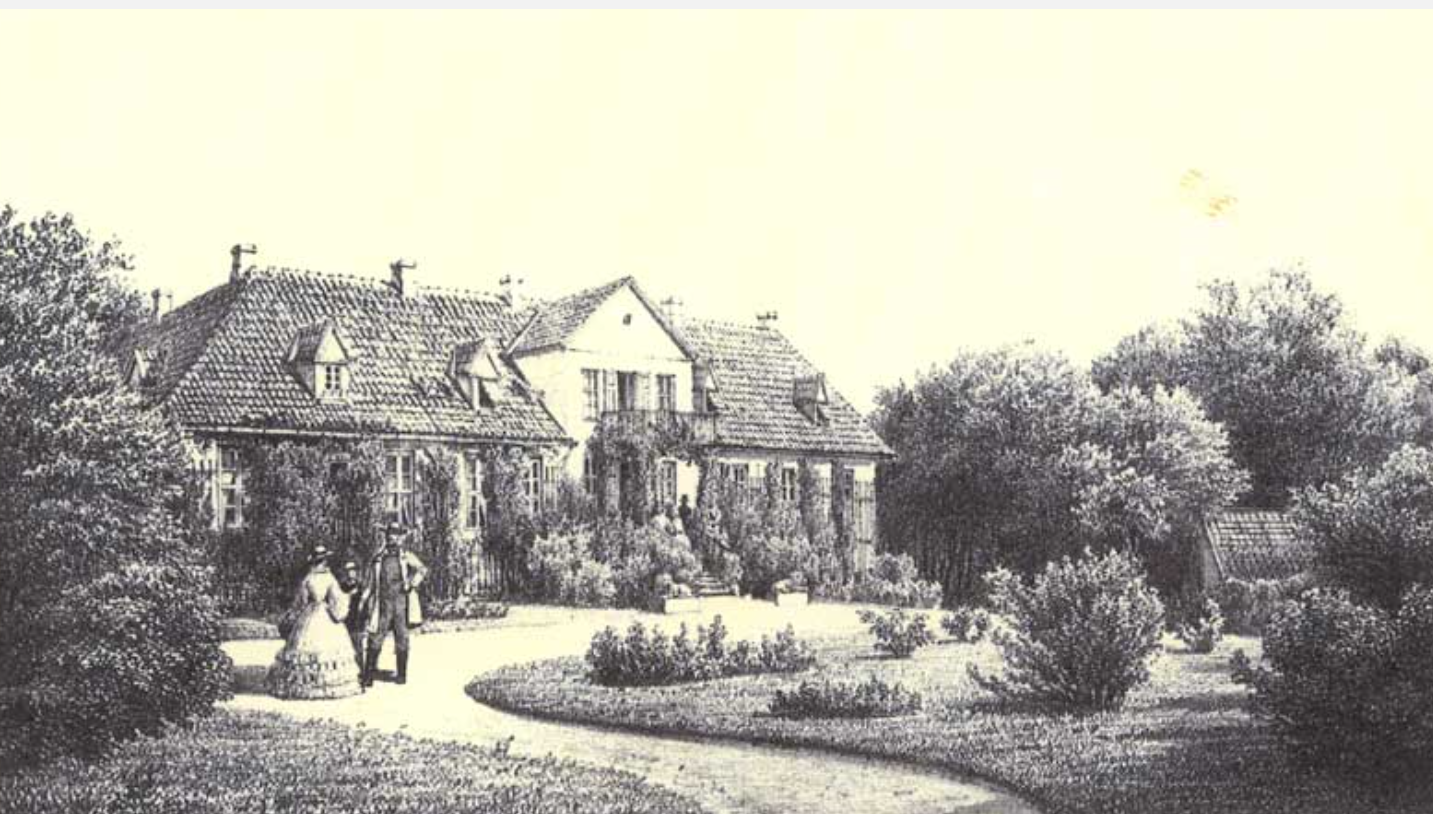 Gjeddesdal in Greve Municipality, Denmark